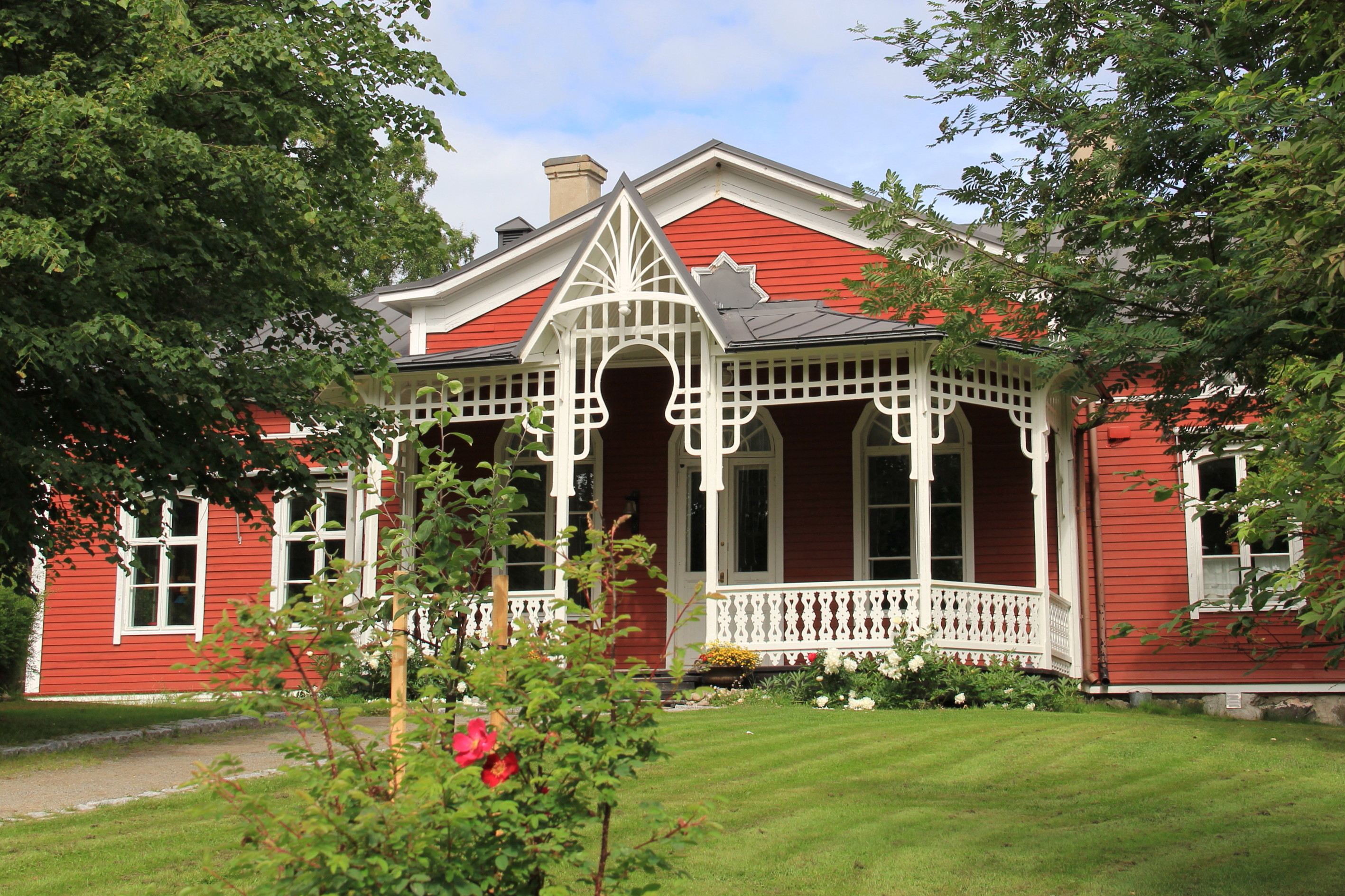 Strömsö main building, veranda, Vaasa, Finland.